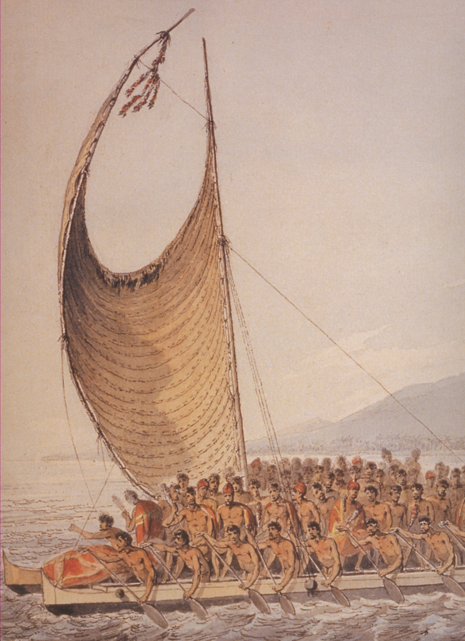 Title: "Kalaniōpu`u, King of Owyhee bringing Presents to Captain Cook, ca. 1781-83. Pen, ink wash, watercolor, by John Webber, artist aboard Cook's ship.